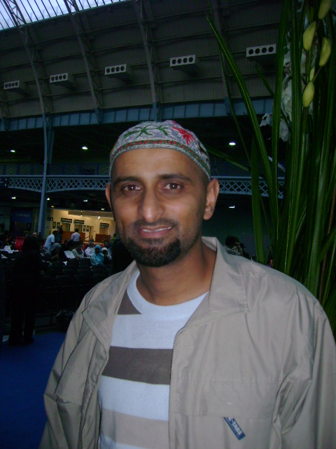 The Nasheed artist, Zain Bhikha, who was present at the Islam Expo of 2008 in London's Olympia.